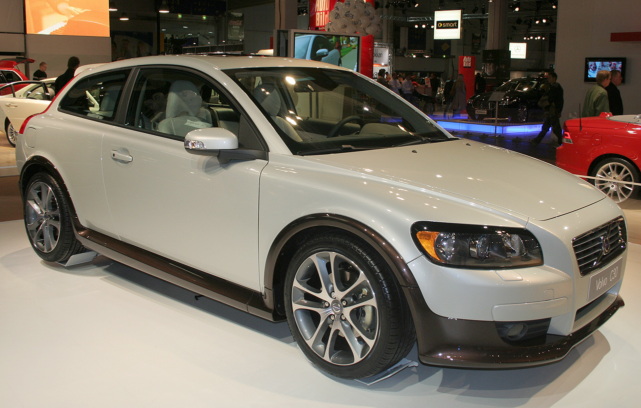 Volvo C30 at Helsinki Motor Show 2006